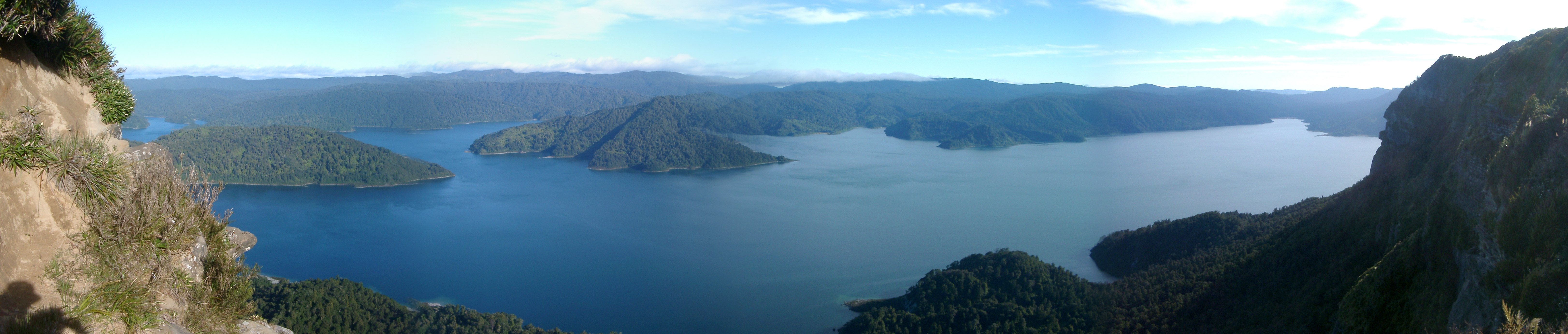 Panorama of Lake Waikaremoana from Panekiri Bluff.